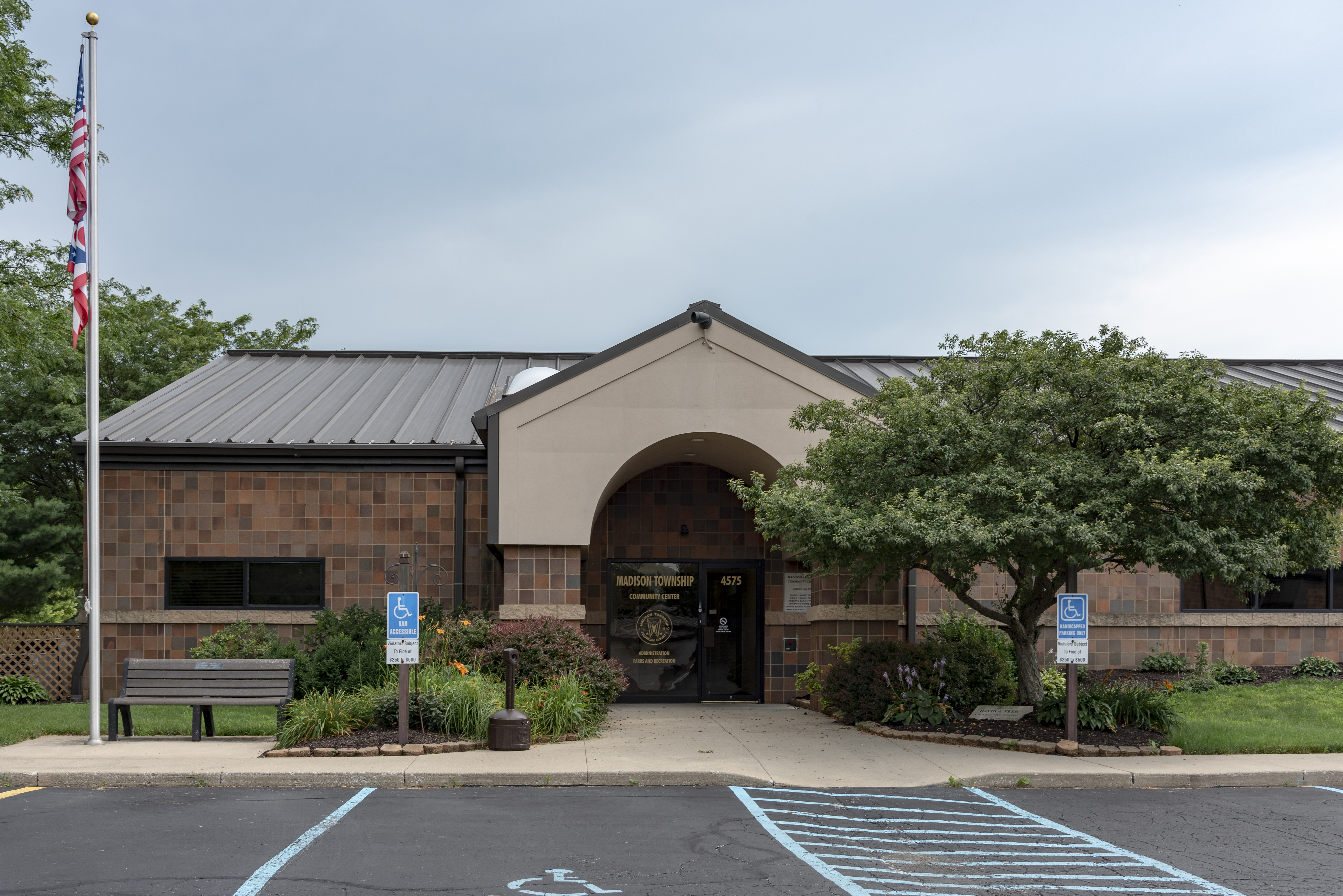 From of the Madison Township Administrative Offices and Community Center.